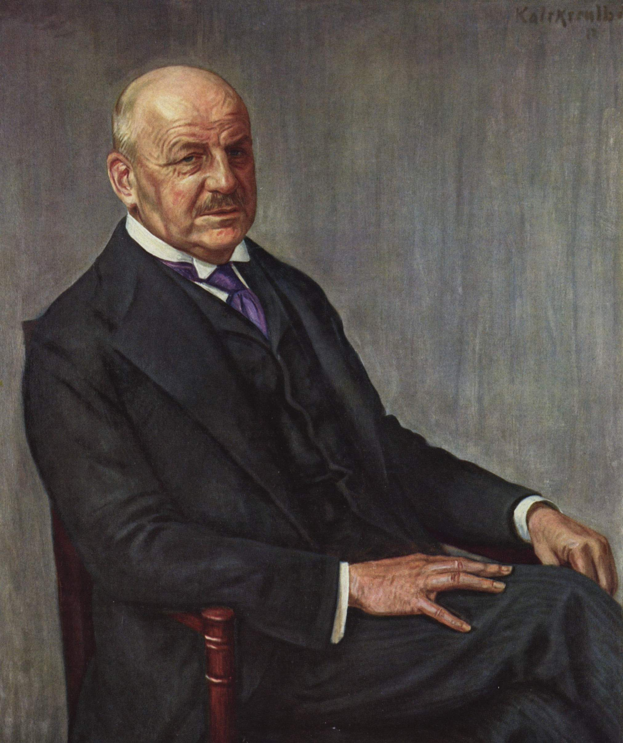 Alfred Lichtwark was 1886-1914 Director of the Hamburger Kunsthalle